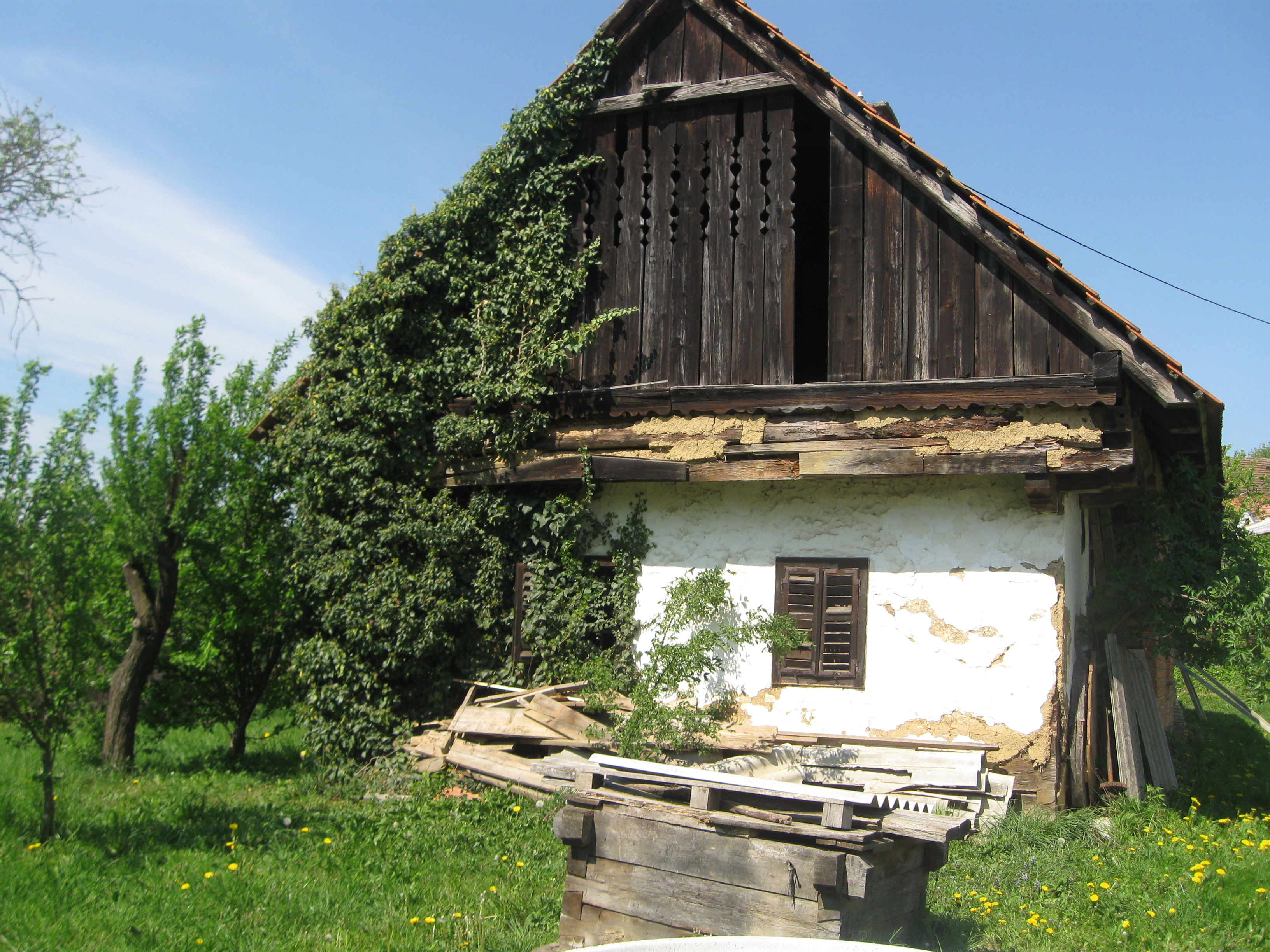 Collapsing birth house of Ignac Koprivec in Drbetinci.